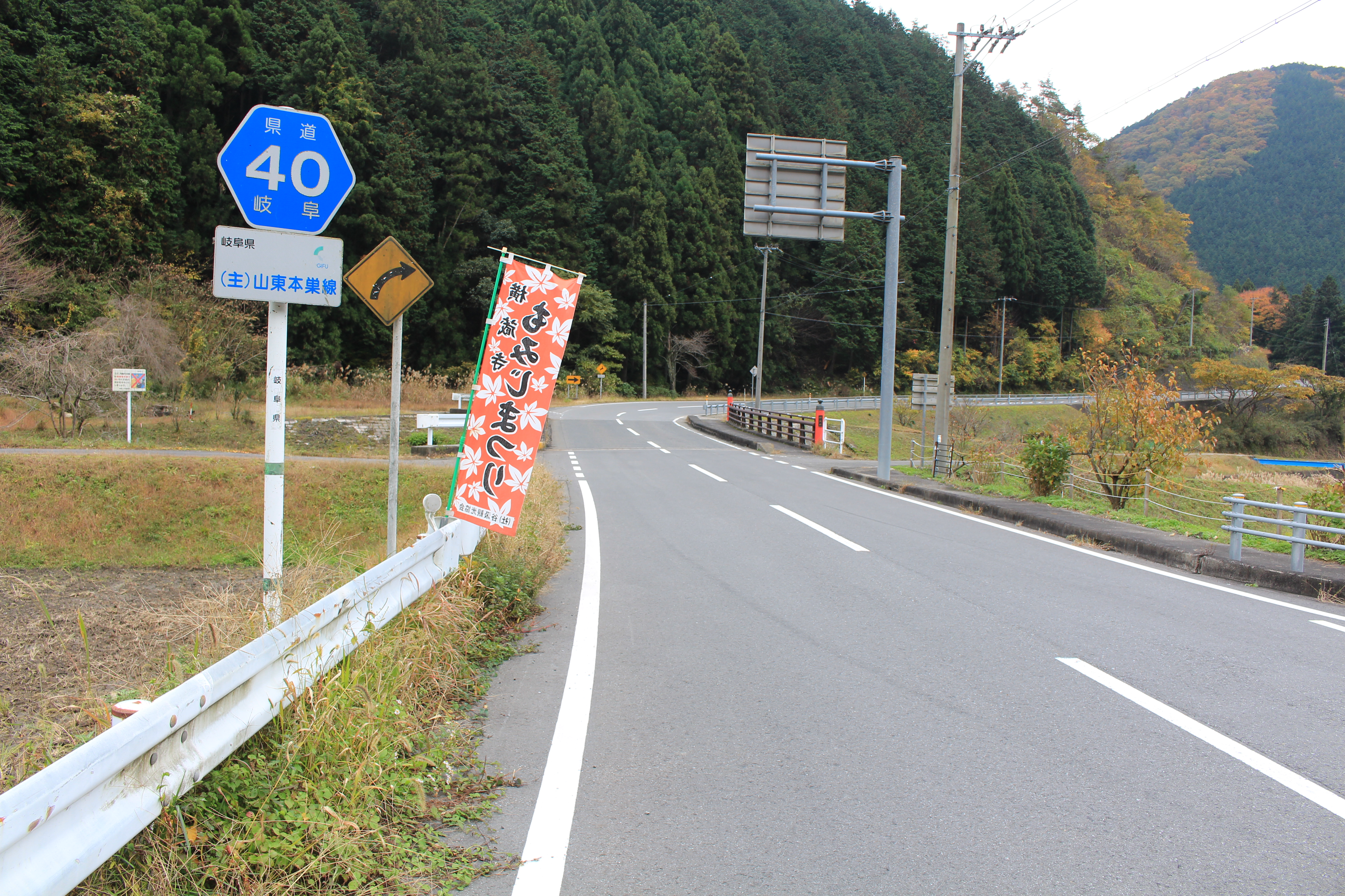 Gifu Prefectural Road and Shiga Prefectural Road Route 40 in Ibigawa, Gifu prefecture, Japan.